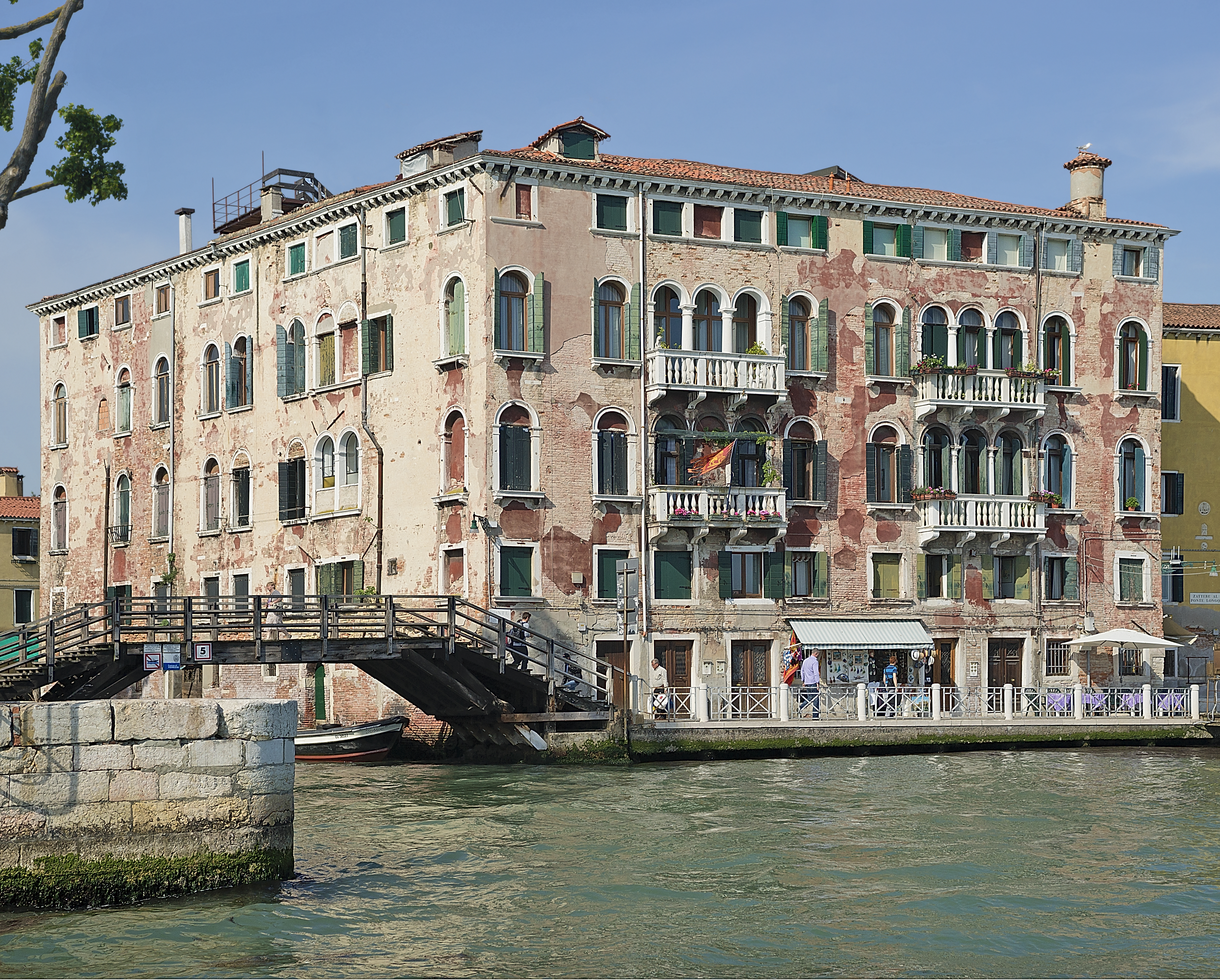 Palazzo Molin a San Basegio Venice.